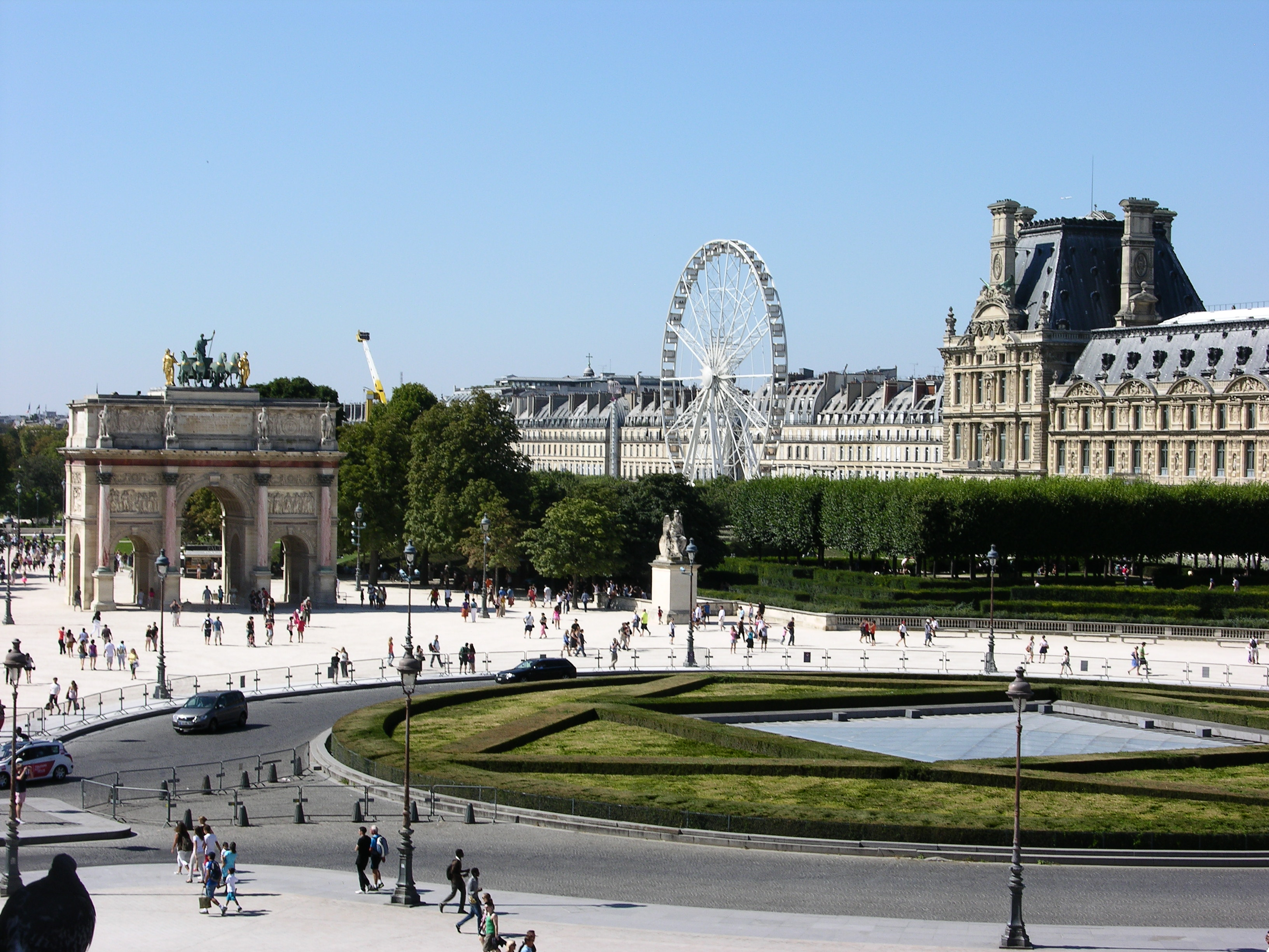 Place du Carrousel, with The Louvre and Arc de Triomphe du Carrousel. .